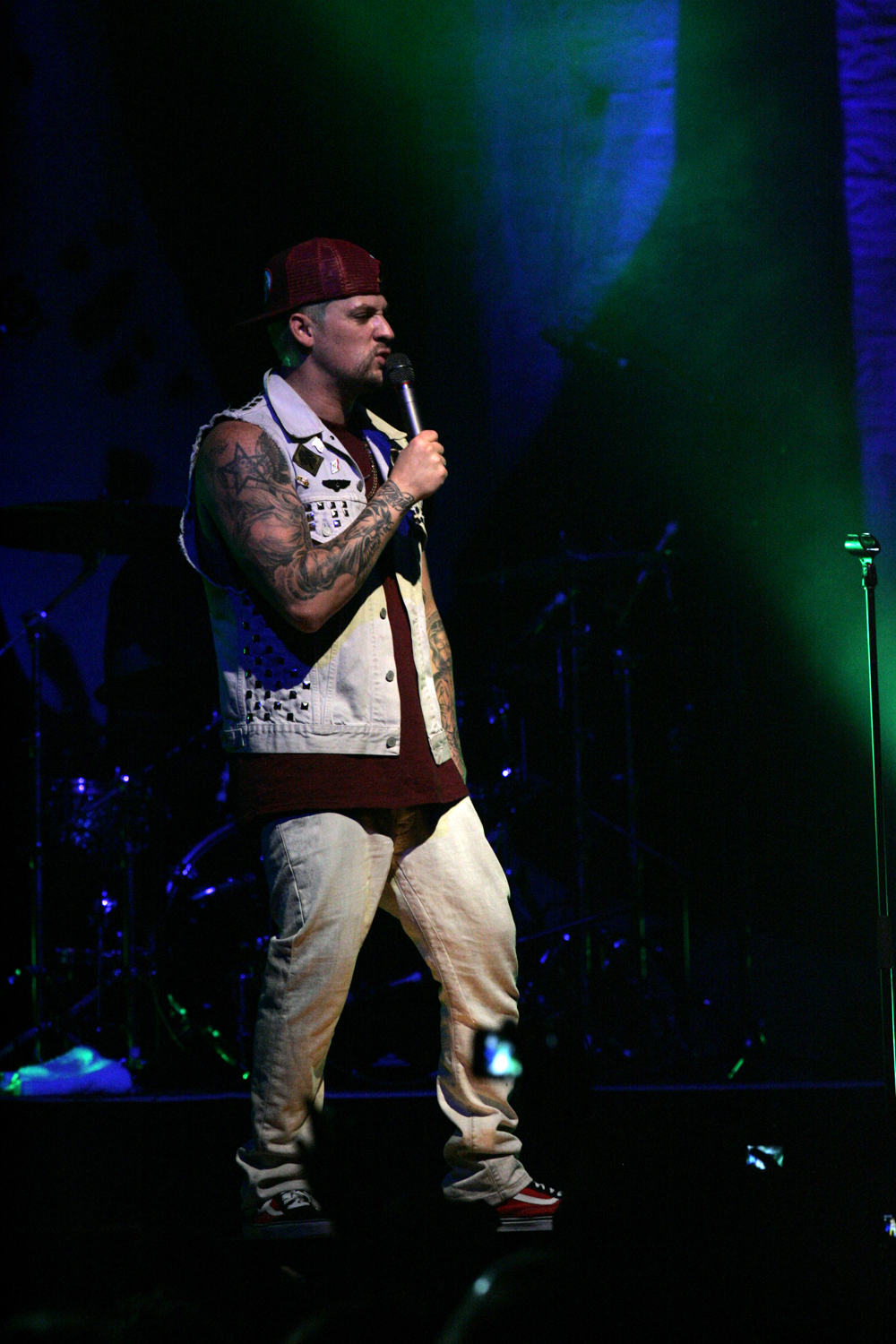 Joel Madden performing in Sydney, Australia.